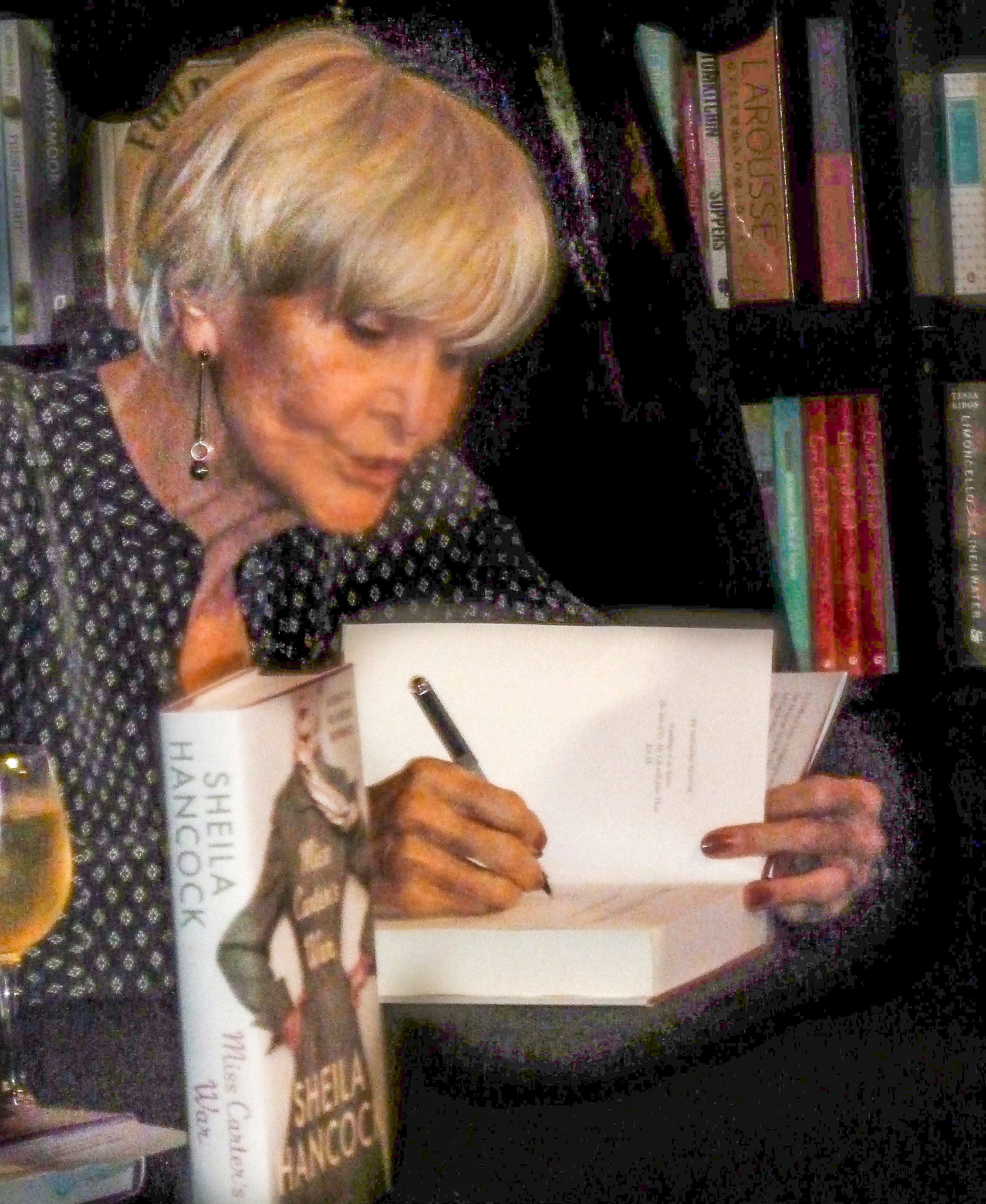 Sheila Hancock at a book signing in October 2014